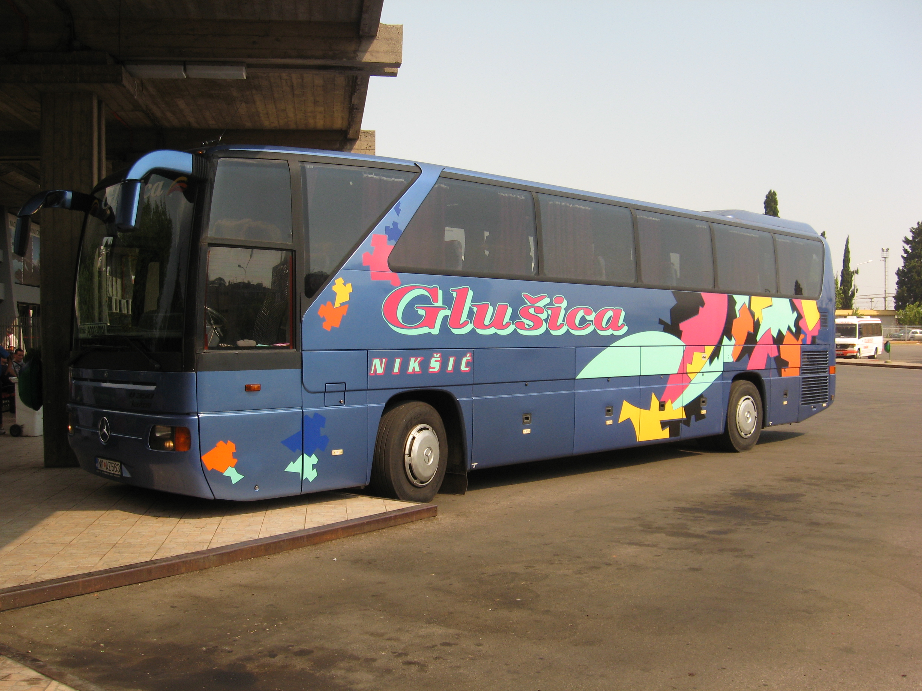 A Glusica Niksic bus in the main bus station in Podgorica